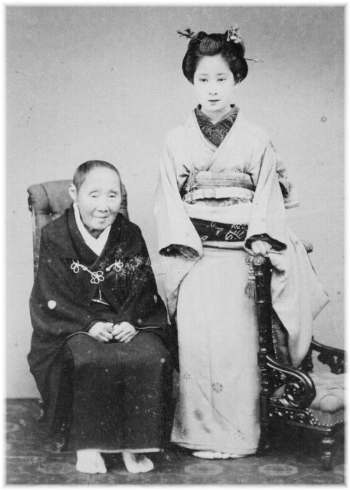 Tokugawa Yoshinobu's natural mother Princess Yoshiko (l: 28 October 1804–27 January 1893) and his daughter Kyoko (r: 2 June 1873–29 September 1893). When she was 14, Kyoko married to Count Tokugawa Satotaka of the Tayasu branch.